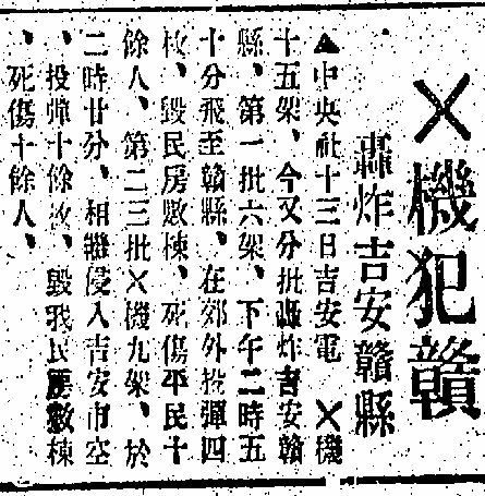 An article about Kiangsi was invaded and attacked by Japanese military planes on "Chinese Mail" (Wah Tsz Yat Po), dated June 14th 1939.